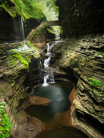 Rainbow Bridge and Falls at Watkins Glen State Park in New York. Taken with a D80 and a sigma 10-20mm lens.